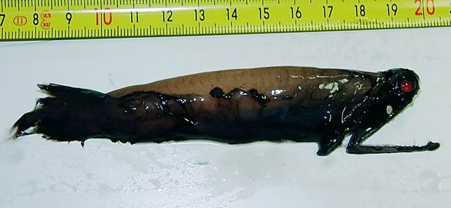 Malacosteus niger